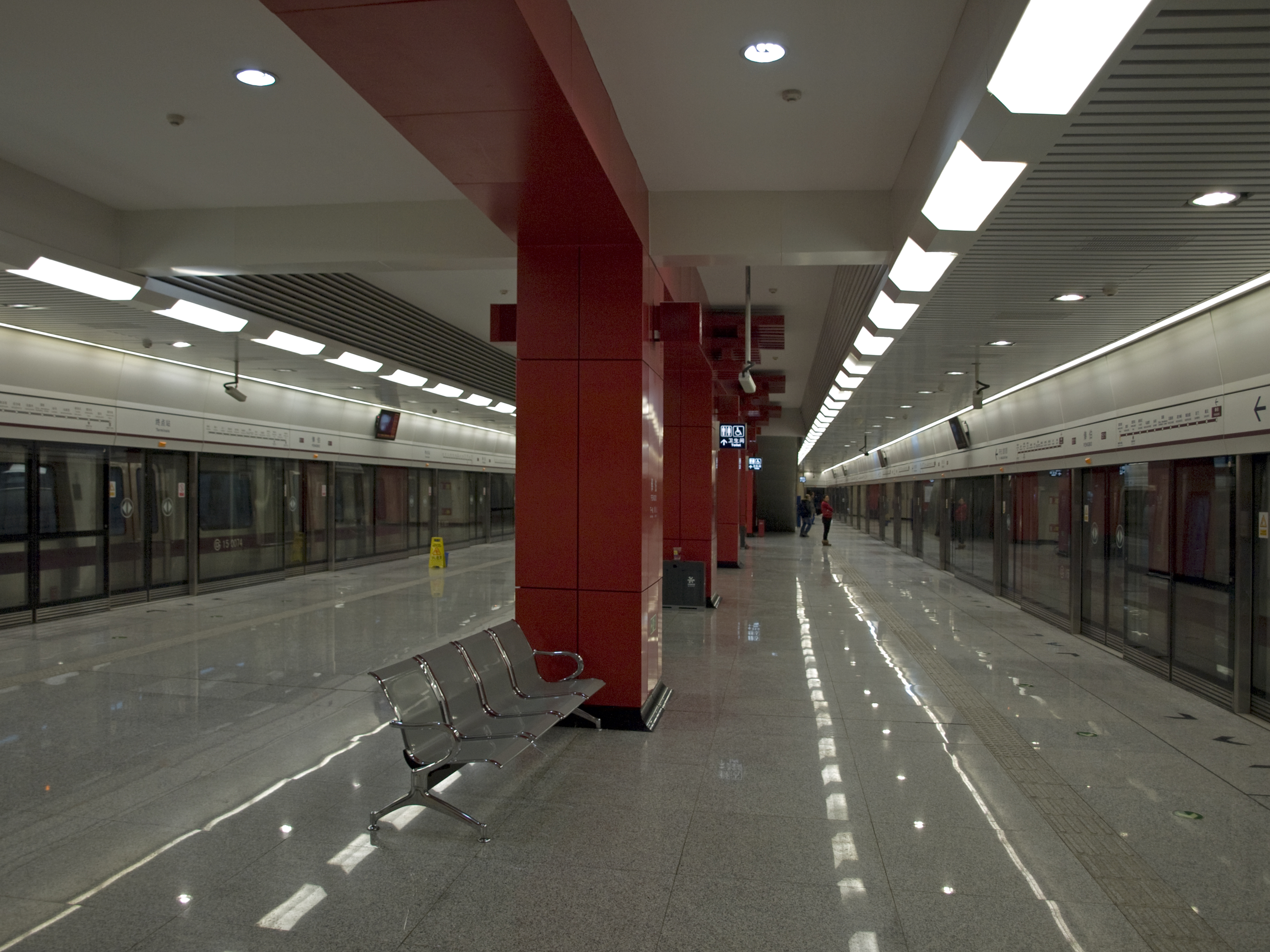 Fengbo station, Beijing Subway